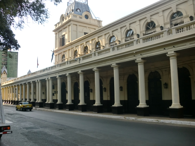 Former Central Railways' Station in Asunción